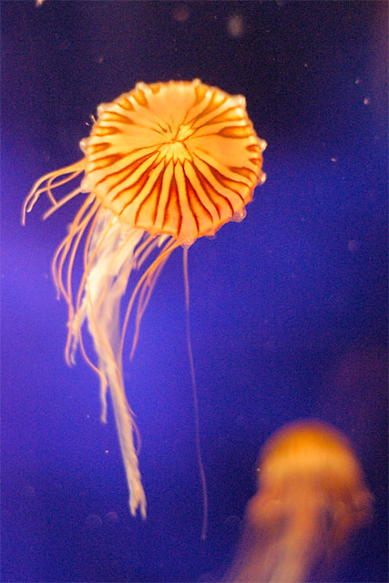 Tiny Jellyfish